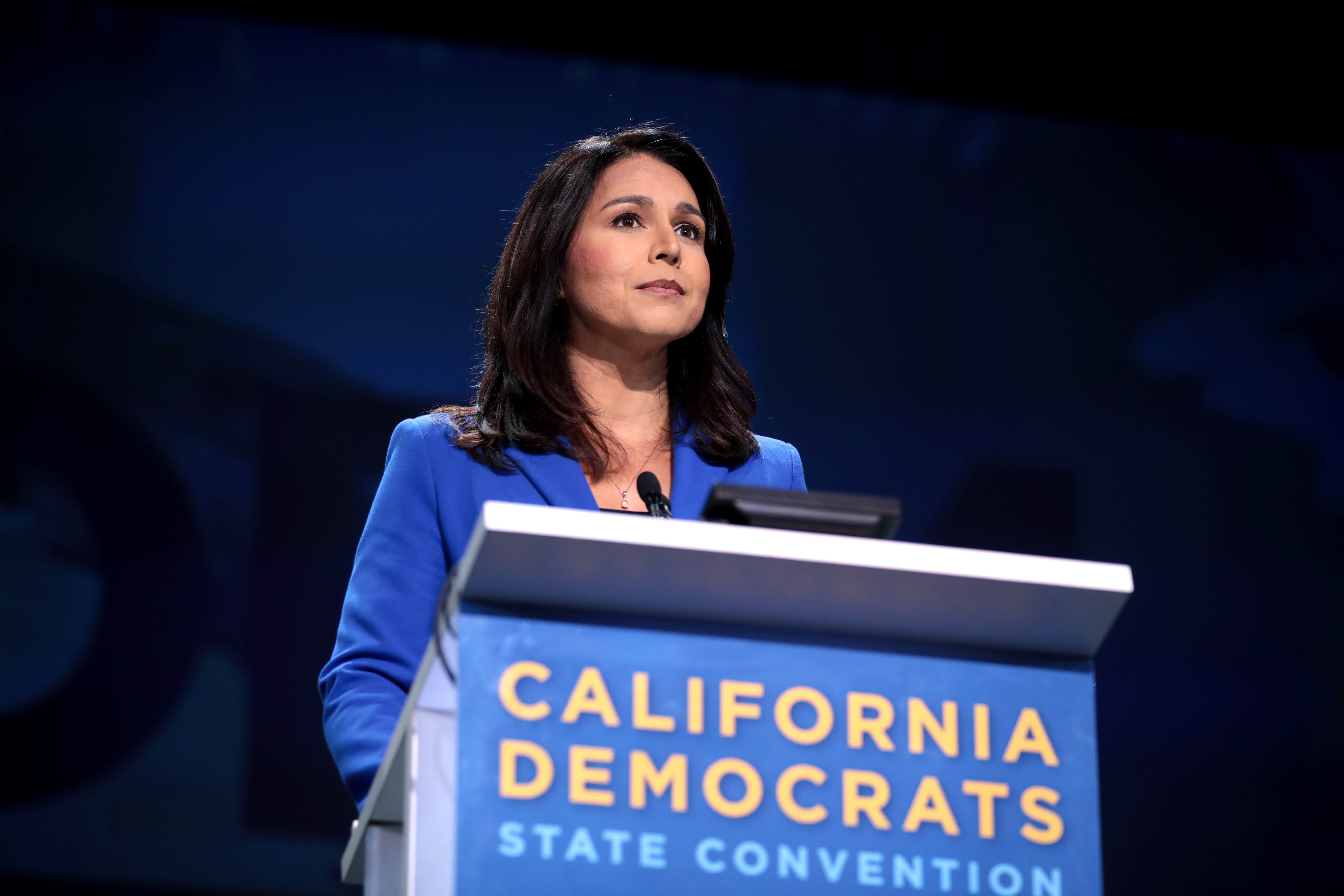 U.S. Congresswoman Tulsi Gabbard speaking with attendees at the 2019 California Democratic Party State Convention at the George R. Moscone Convention Center in San Francisco, California.